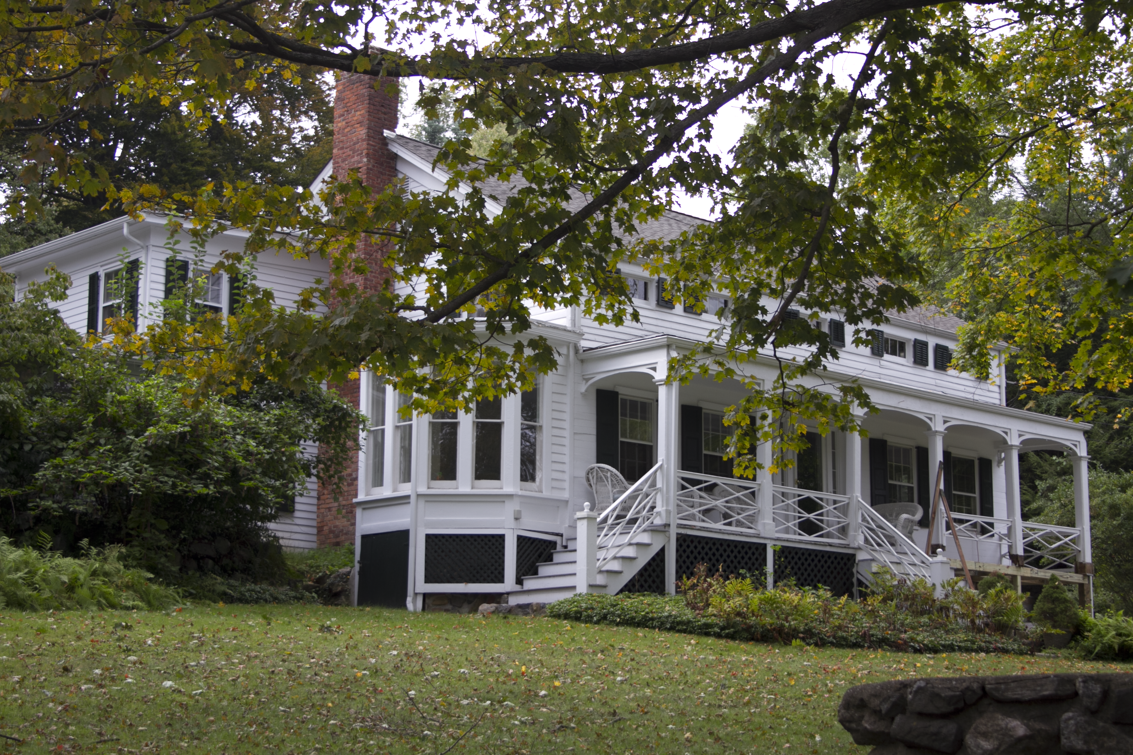 Old Chappaqua Historic District Dodge Farm